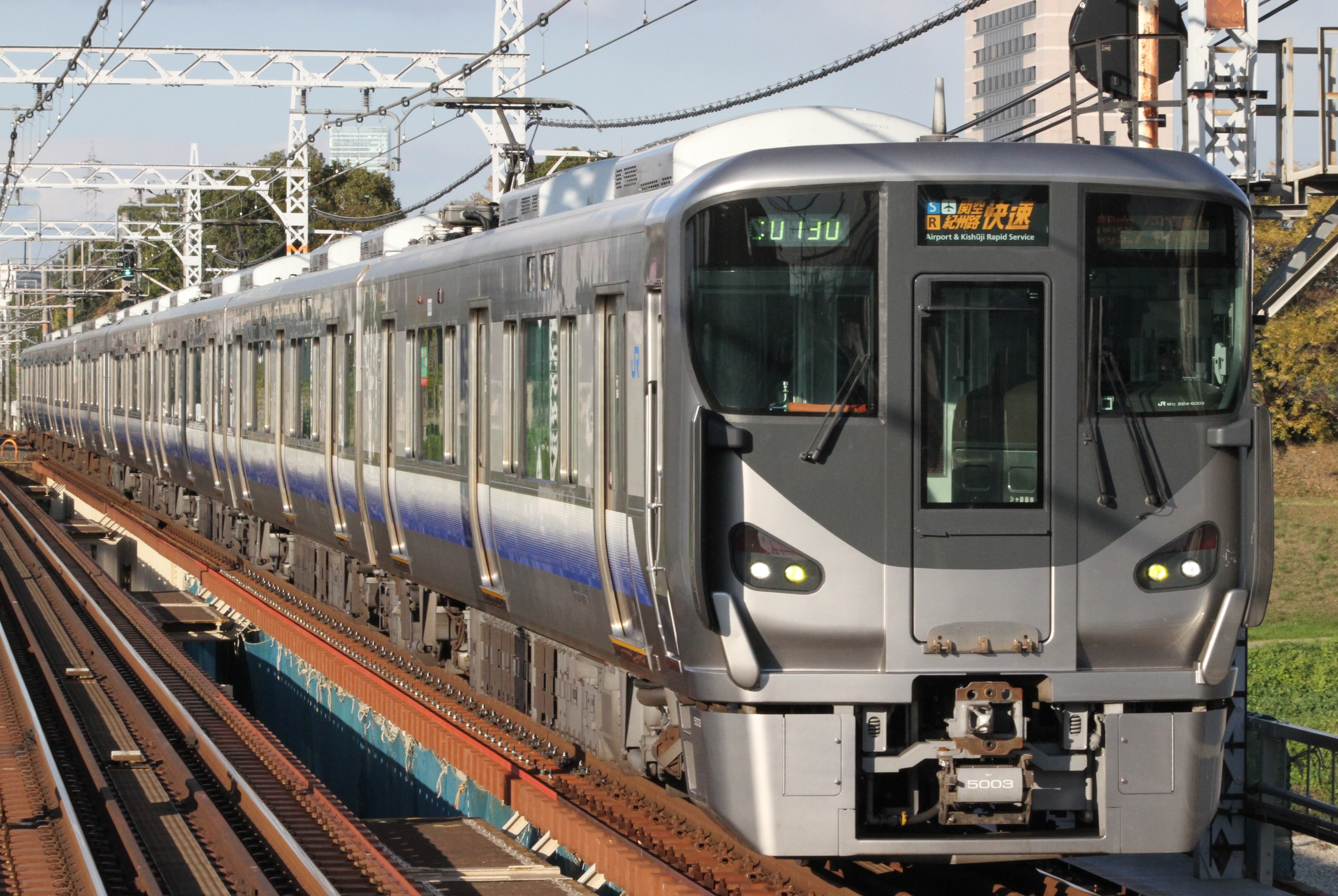 A JR West 225-5000 series EMU set